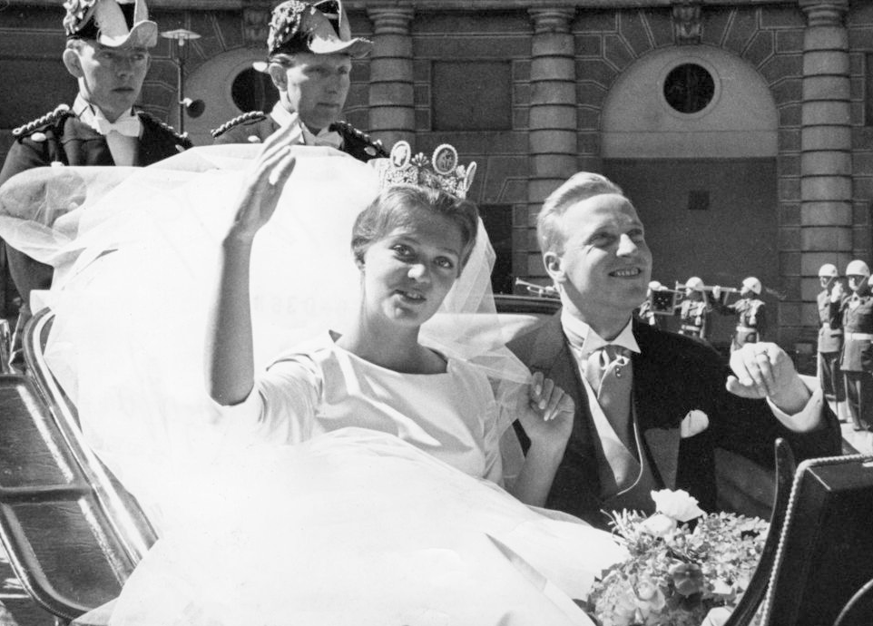 Wedding day of Princess Birgitta of Sweden and Prince Johann Georg of Hohenzollern in Stockholm.This was a civil ceremony, a religious ceremony was conducted five days in later in Sigmaringen, Germany. In the process, Princess Birgitta converted from protestantism to catholicism.